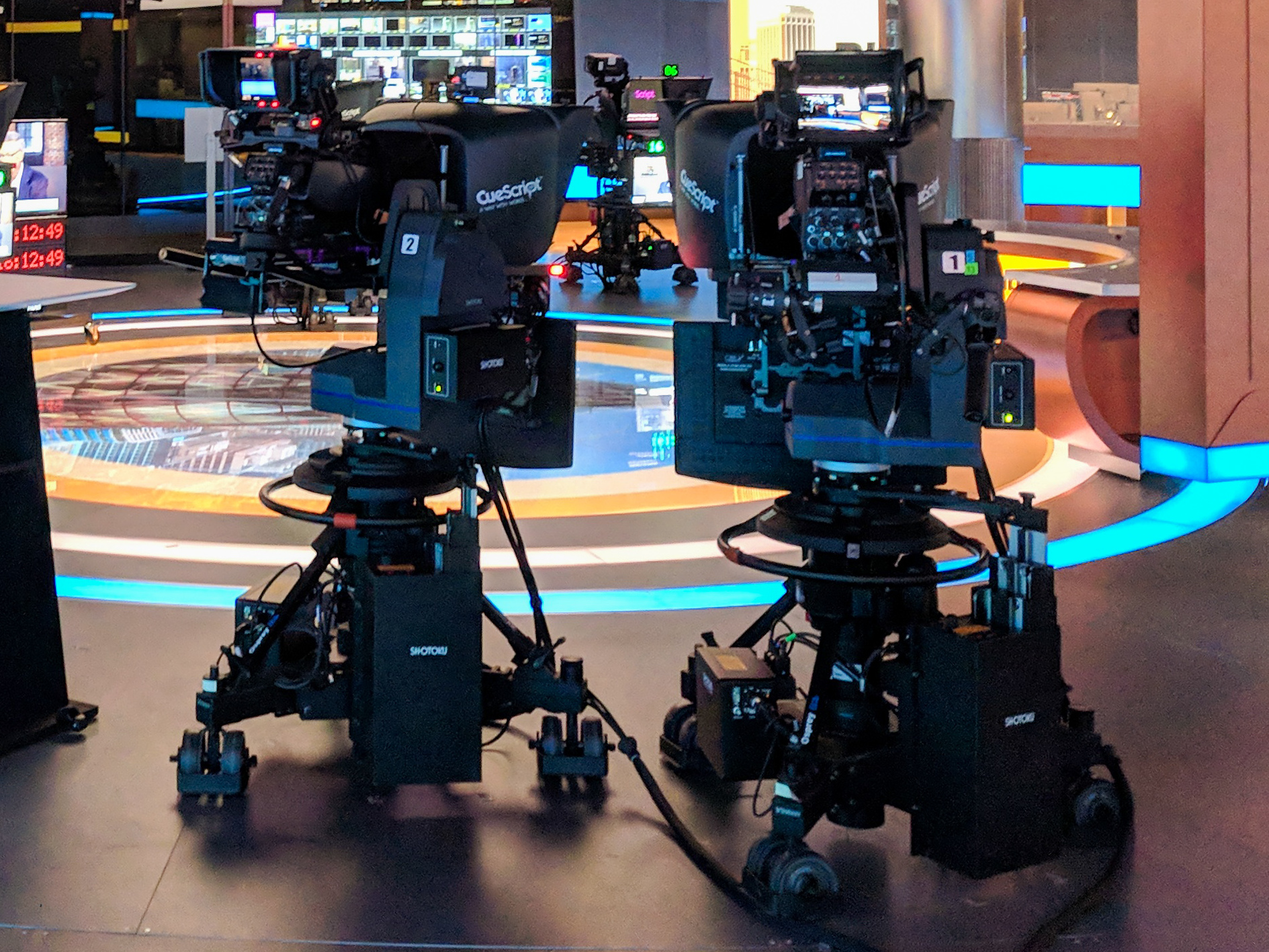 The studio in the Bloomberg London building